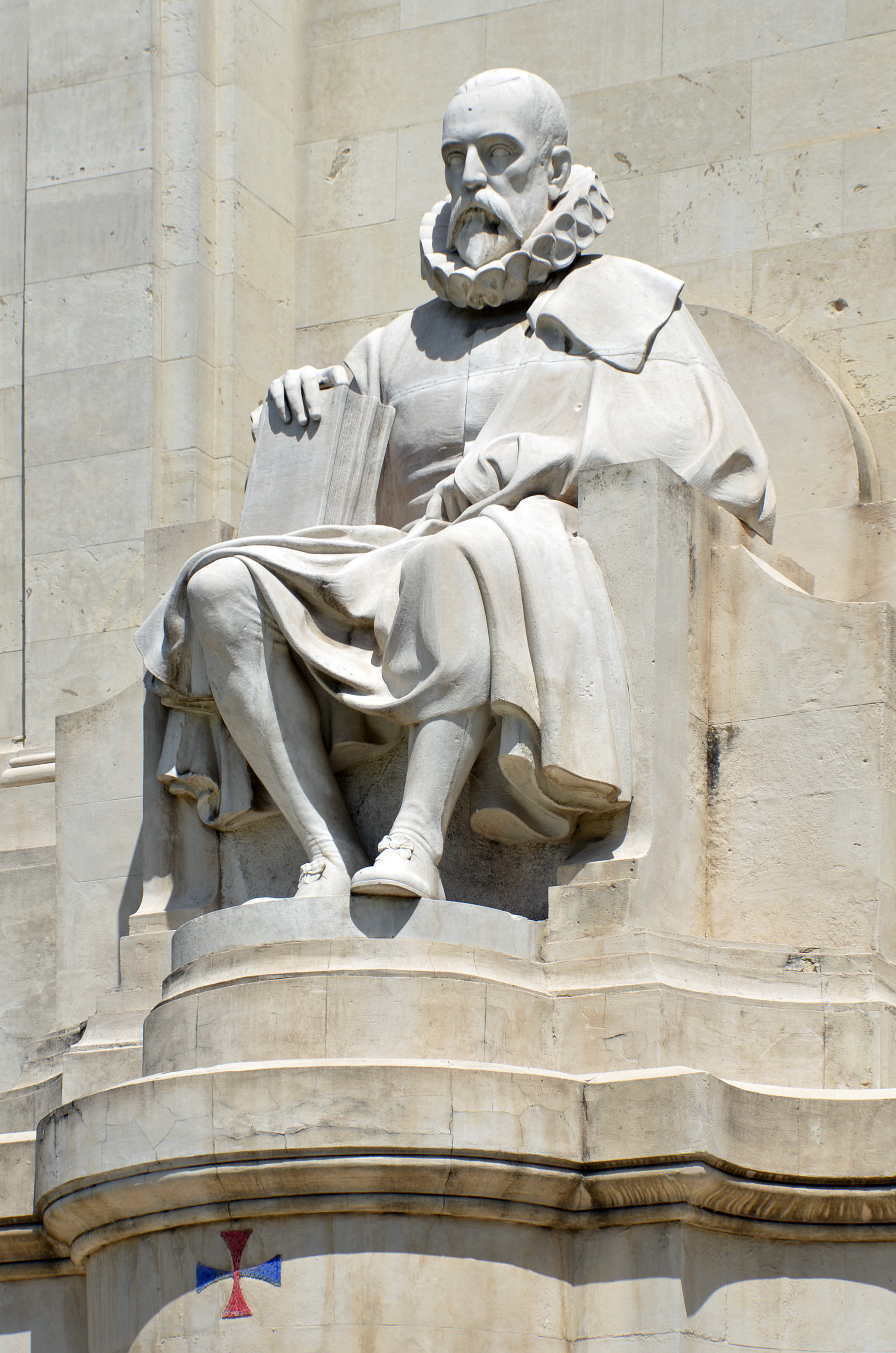 Stone sculpture of Miguel de Cervantes (1547–1616) by Lorenzo Coullaut Valera (1876–1932). Detail of the monument to Cervantes (1925–30) at the Plaza de España ("Spain Square") in Madrid (Spain).